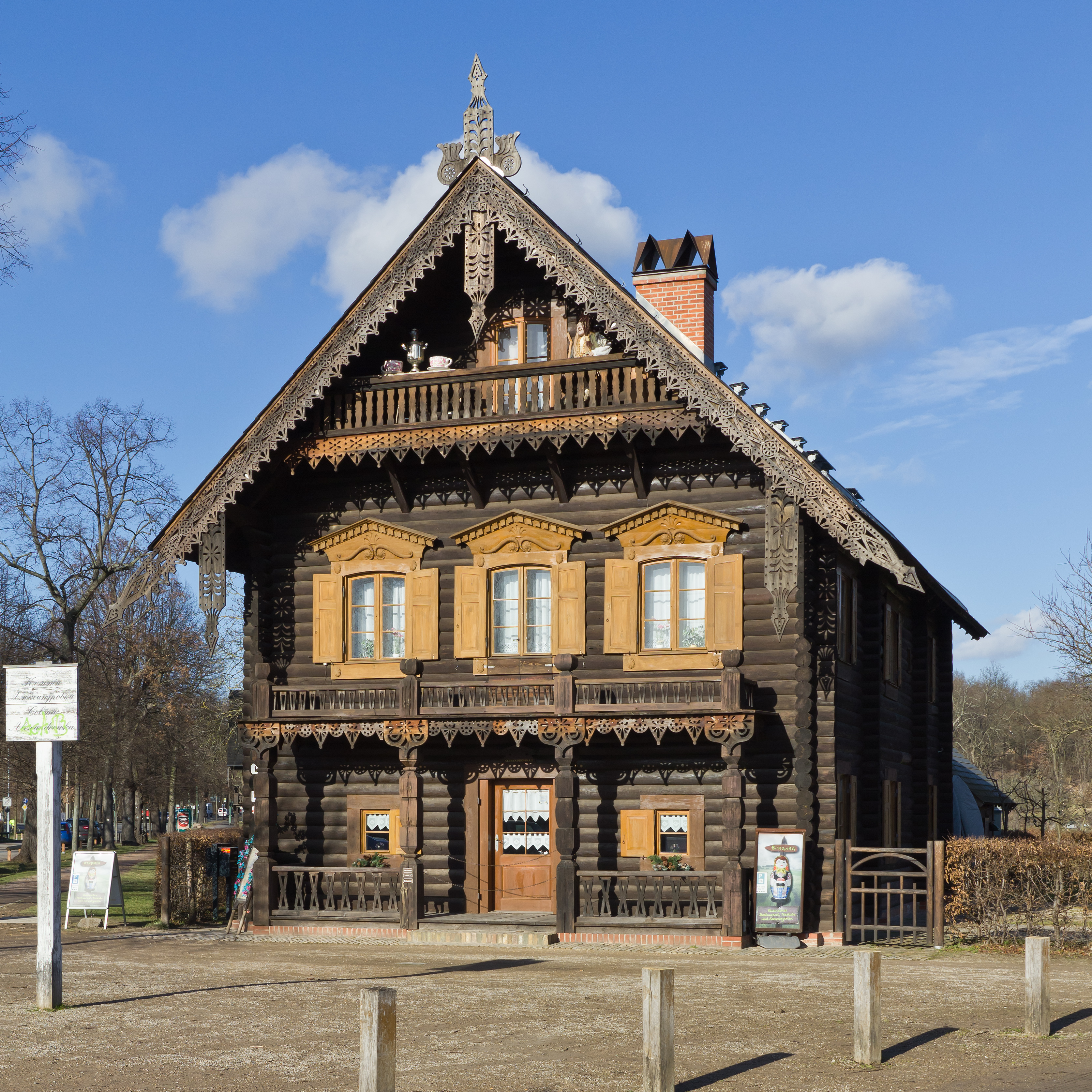 Russian settlement Alexandrowka in Potsdam, Germany